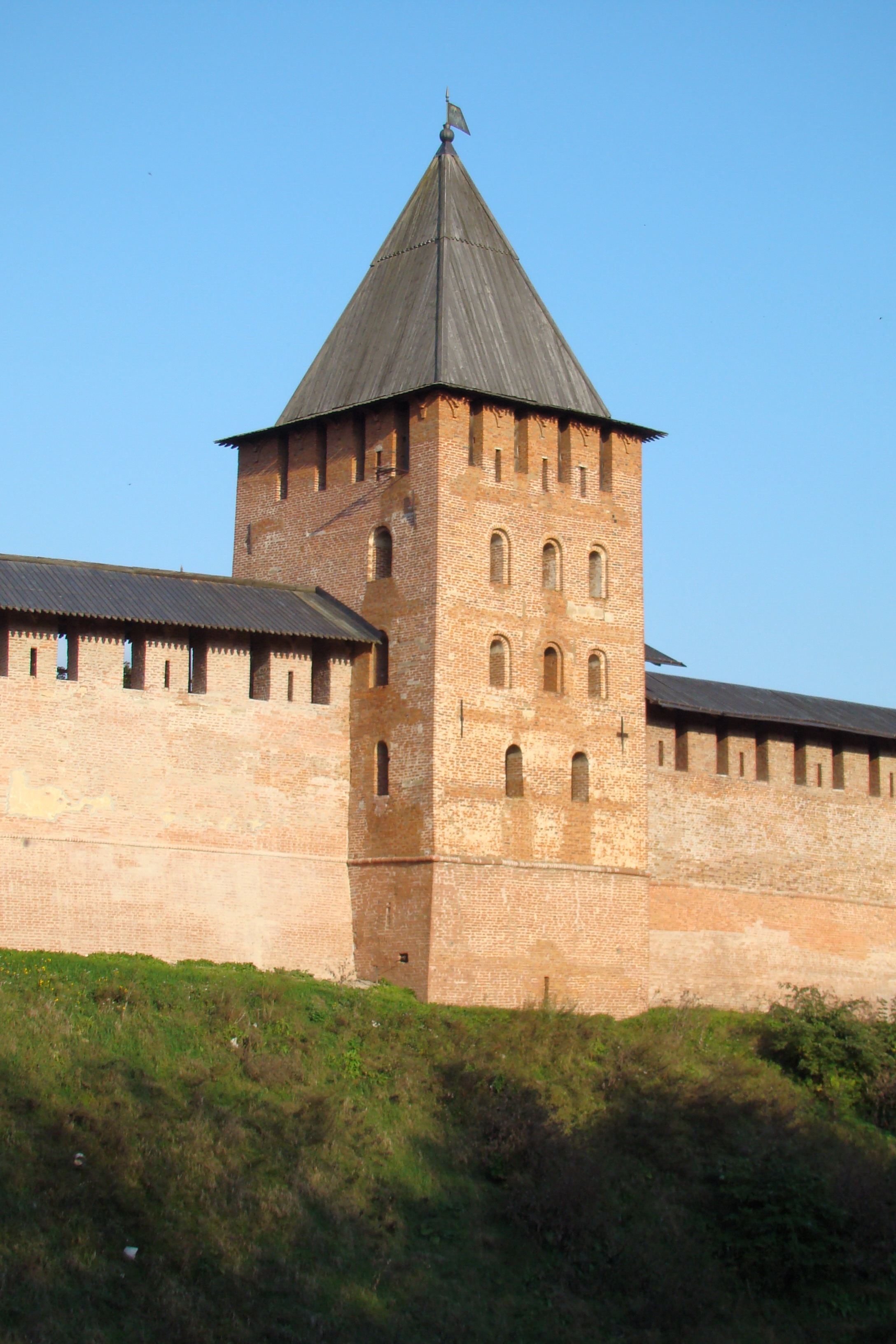 Knyazhayа tower in Detinets (Velikiy Novgorod, Russia, 15th-century)